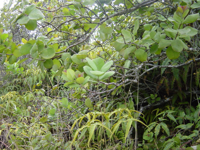 A sandalwood plant found in Hawaii. Ignore the shrub near the bottom of the image. The sandalwood is the branch hanging from the upper right of the picture. I took this picture on the Big Island of Hawaii.